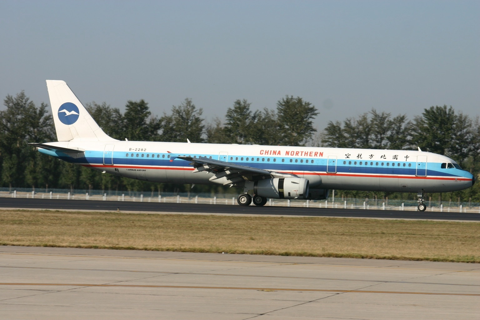 At Beijing Capital